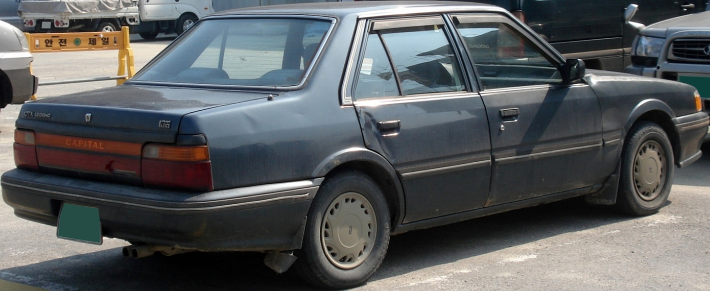 Kia Capital